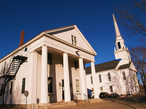 Holden Center Historic District, Holden, Massachusetts (town hall on left)